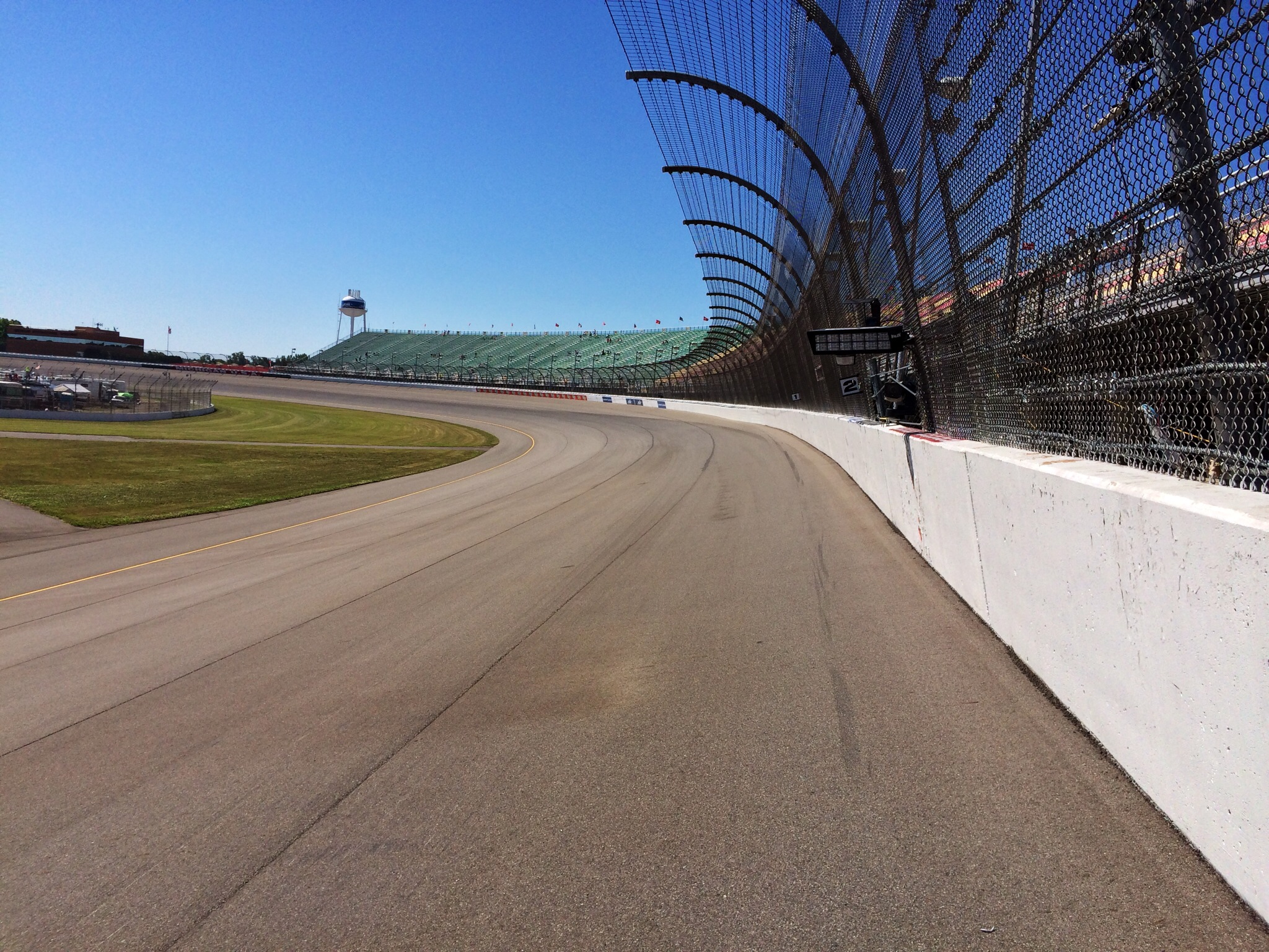 Turn 1 at Michigan International Speedway, 2014. The track was repaved in 2012.